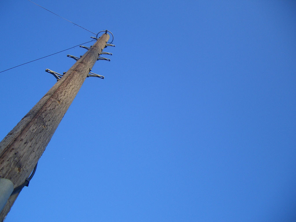 Old English Telegraph, Looking up with blue sky background